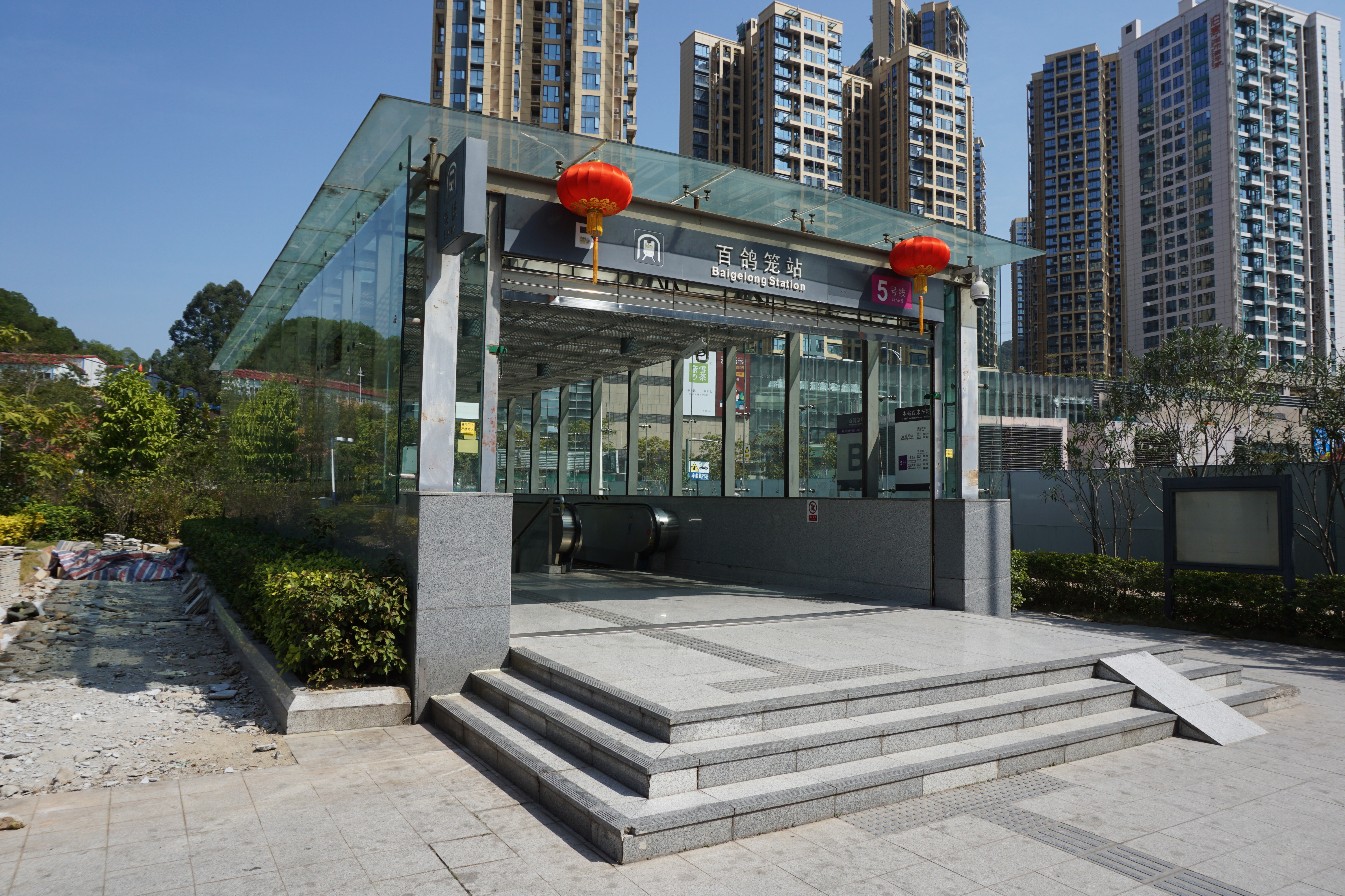 Baigelong Station in Shenzhen.